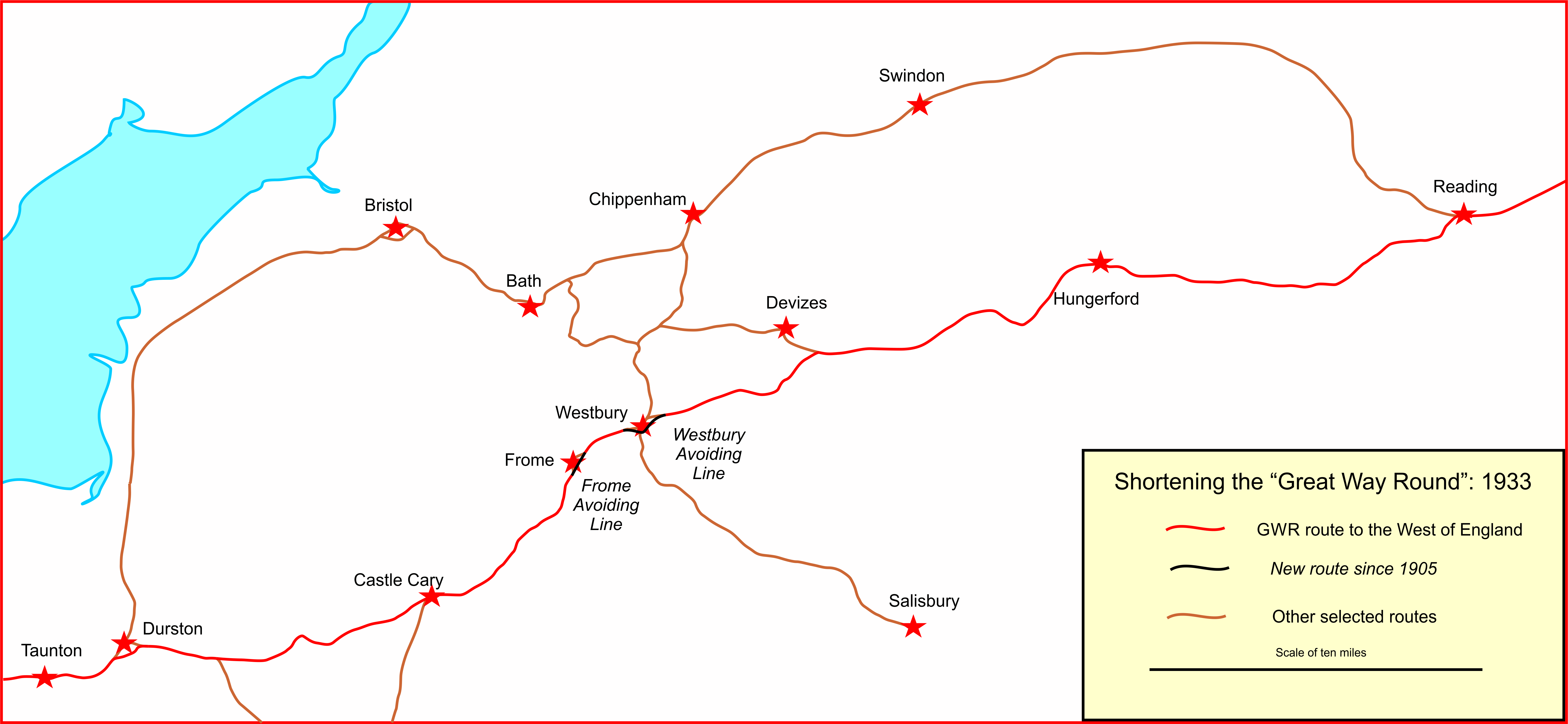 GWR railway route from Reading to Taunton in 1933